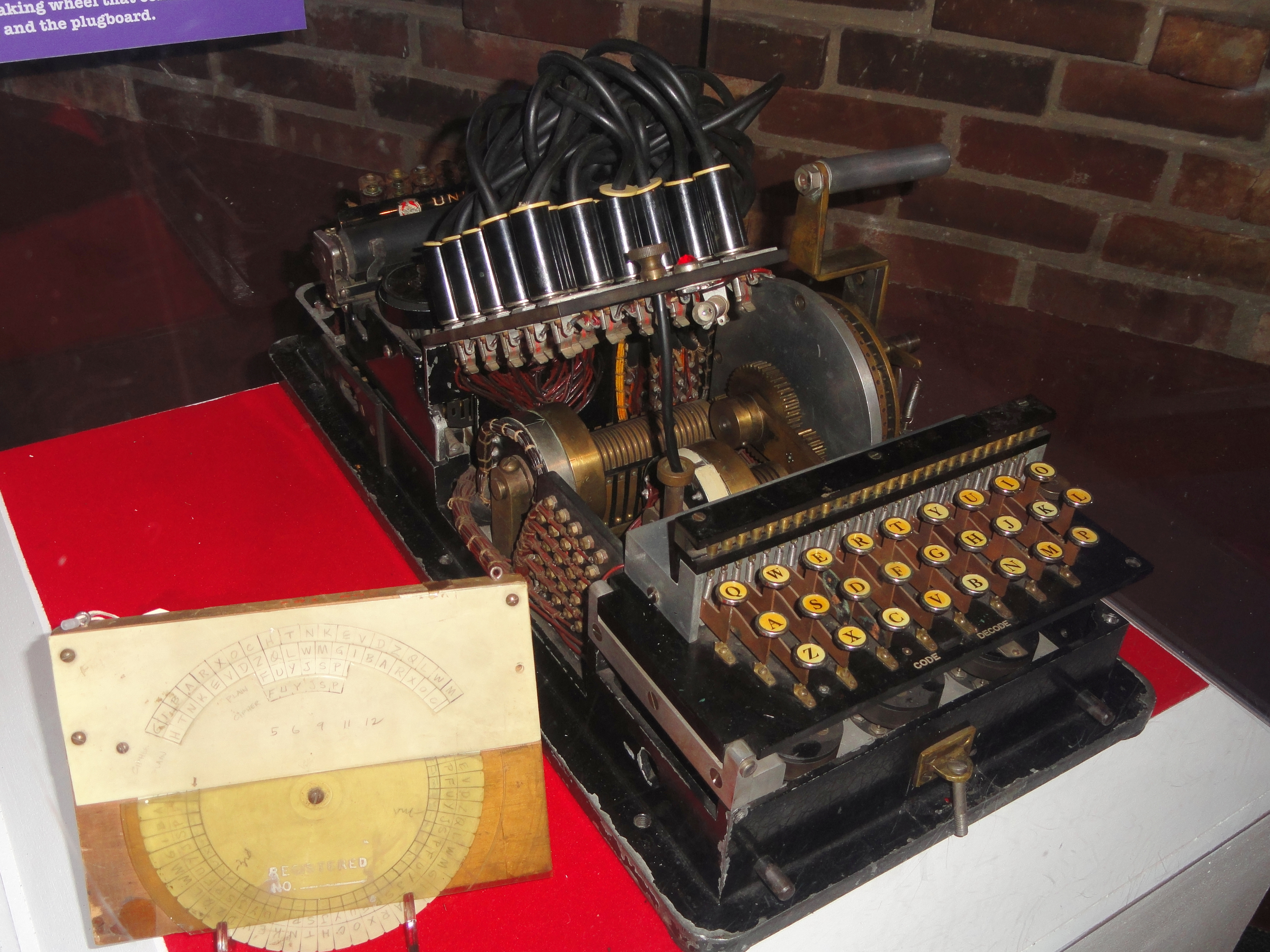 Exhibit in the National Cryptologic Museum, Fort Meade, Maryland, USA. All items in this museum are unclassified; items created by the United States Government are not subject to copyright restrictions.